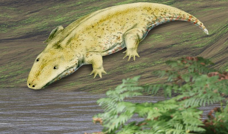 Saharastega moradiensis, a temnospondyli from the Late Permian of Niger. Digital painting.